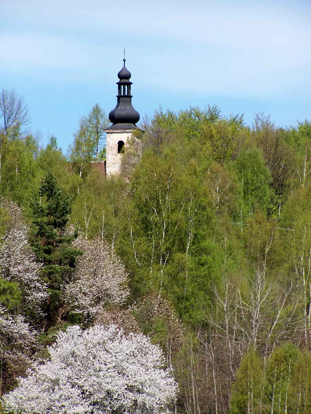 Church in Klení